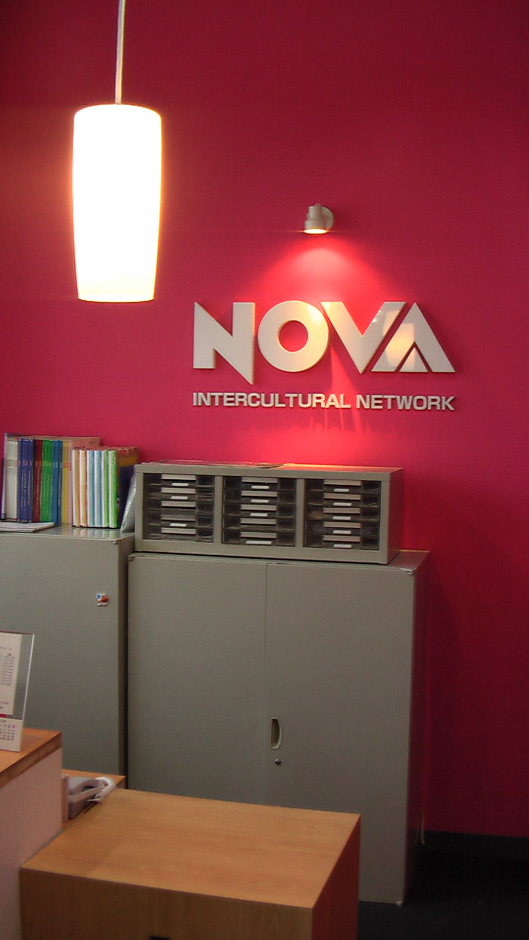 Inside of a NOVA English school showcasing the new decoration motif. I recently had a chance to tour a non-opened branch and took this picture for use in Wikipedia.